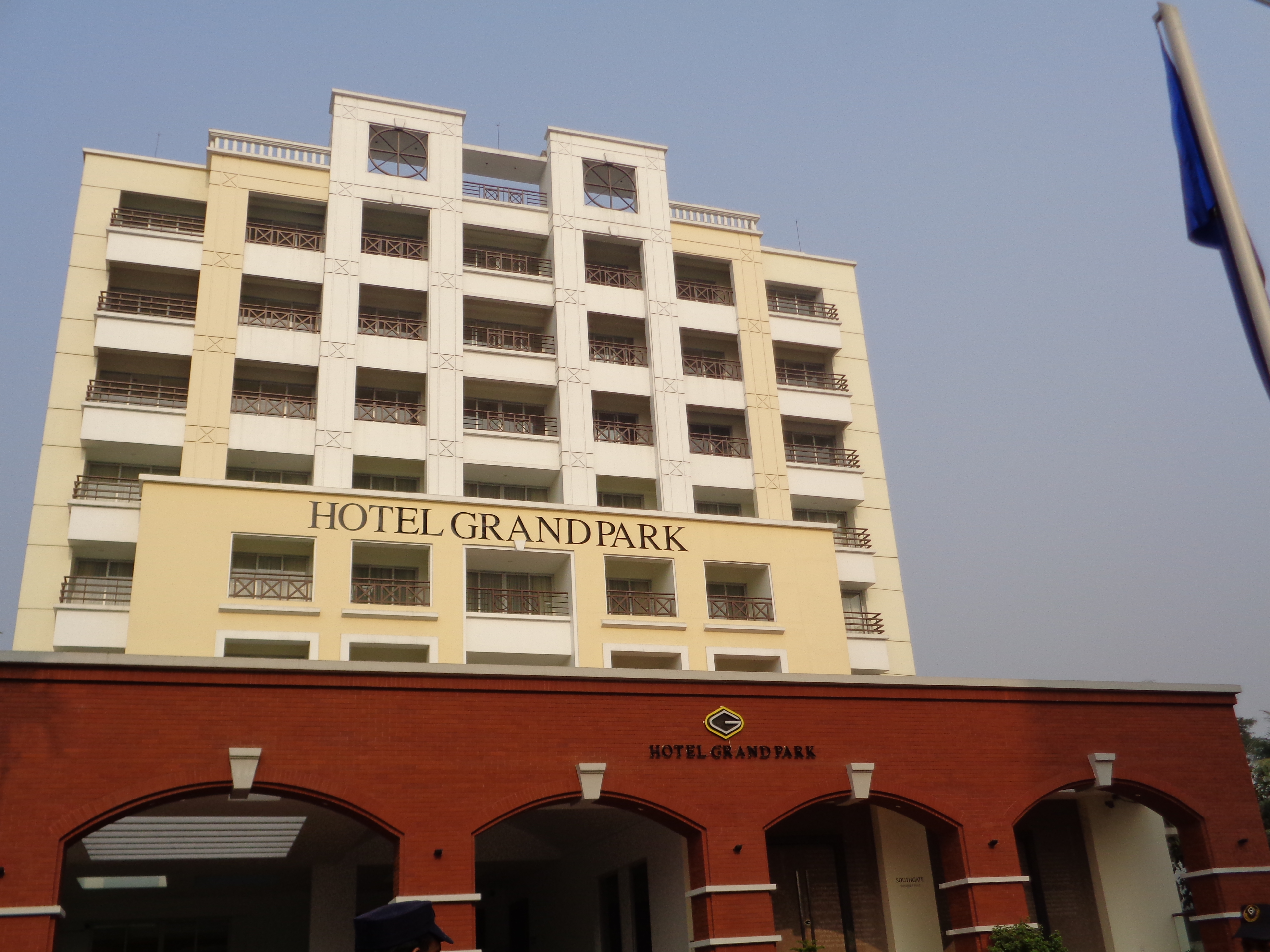 This is a 4-star hotel of Barisal.